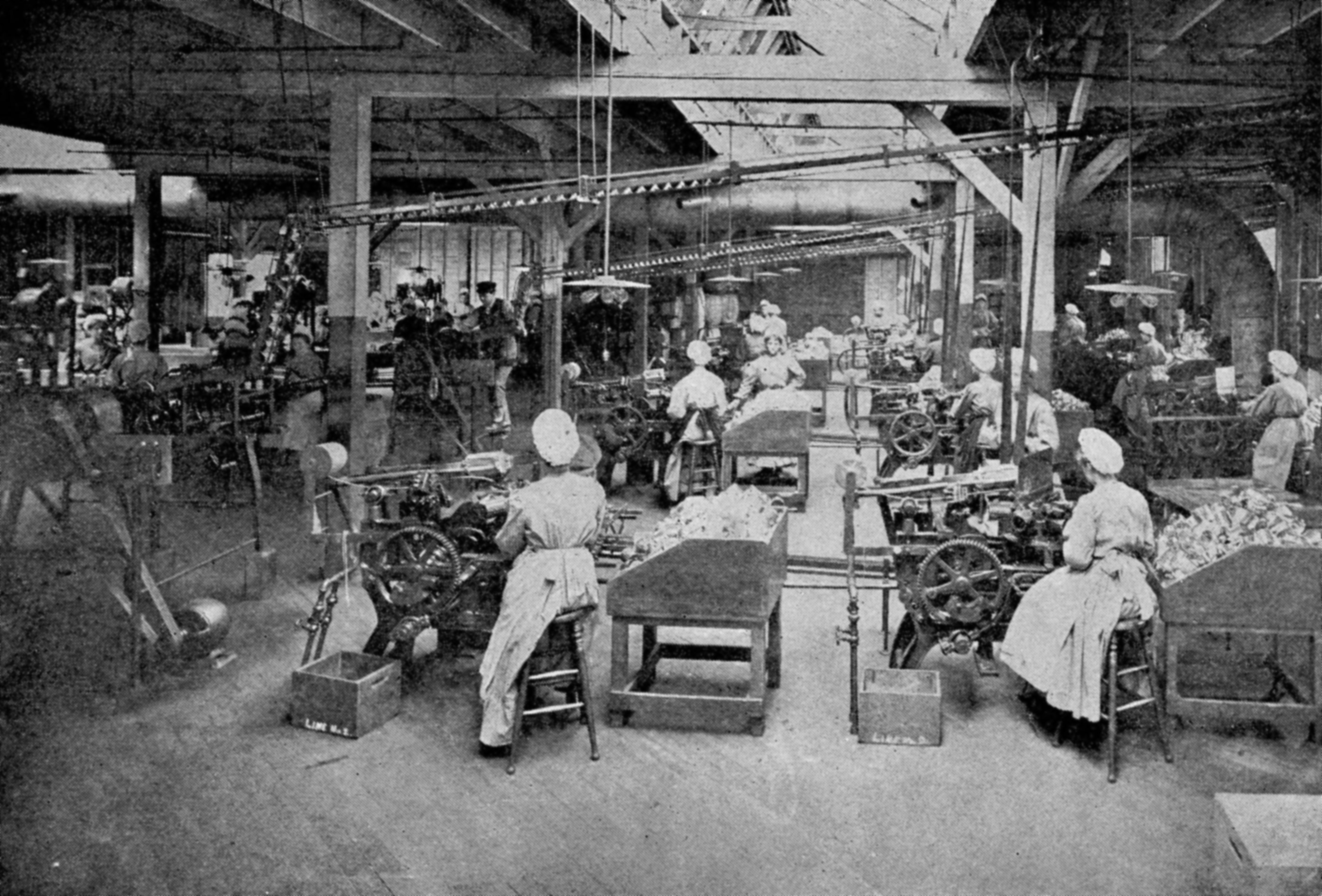 Interior of H. J. Heinz can factory, with women working at machinery. From the materials for the Alaska-Yukon-Pacific Exposition of 1909, held in Seattle.